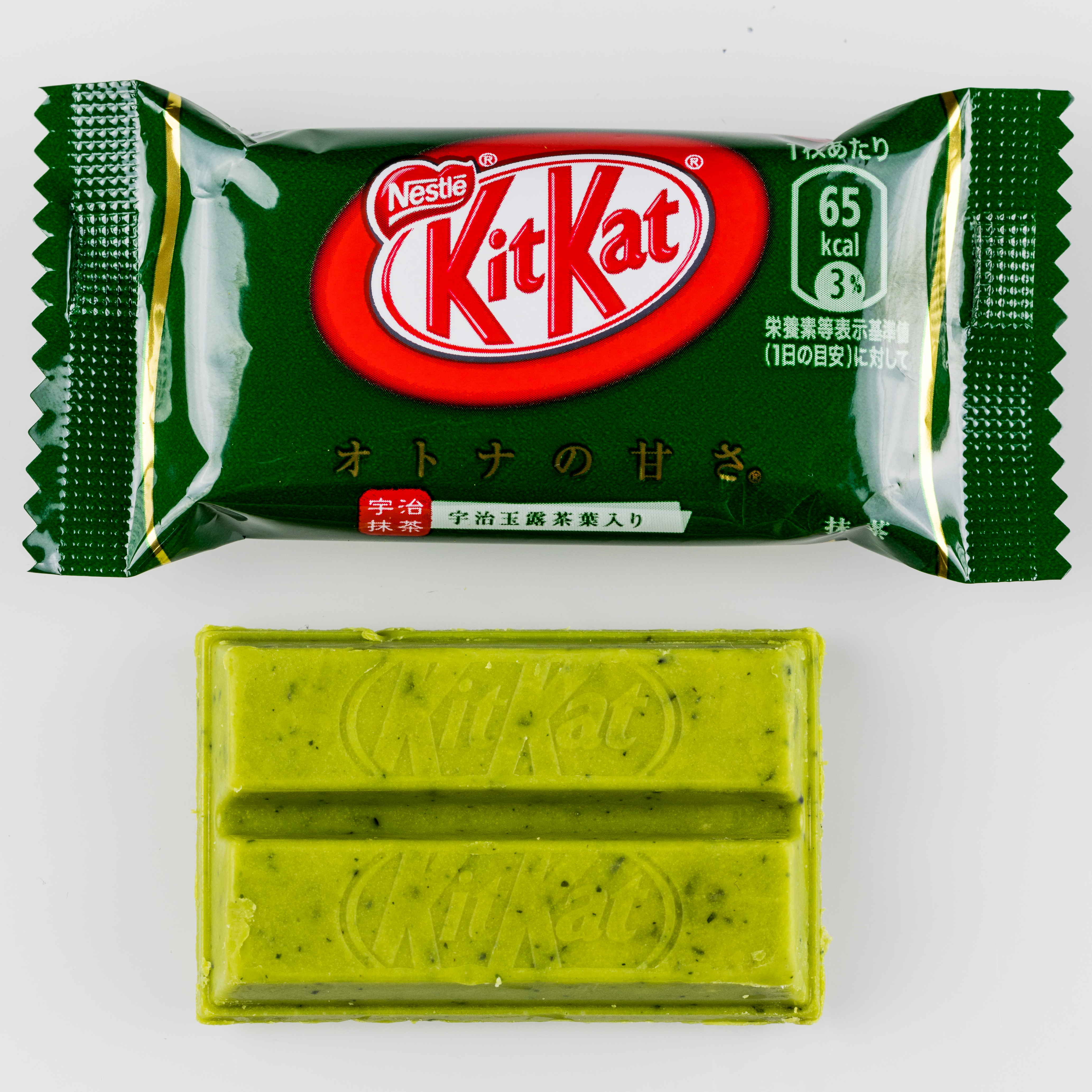 Kit Kat Matcha